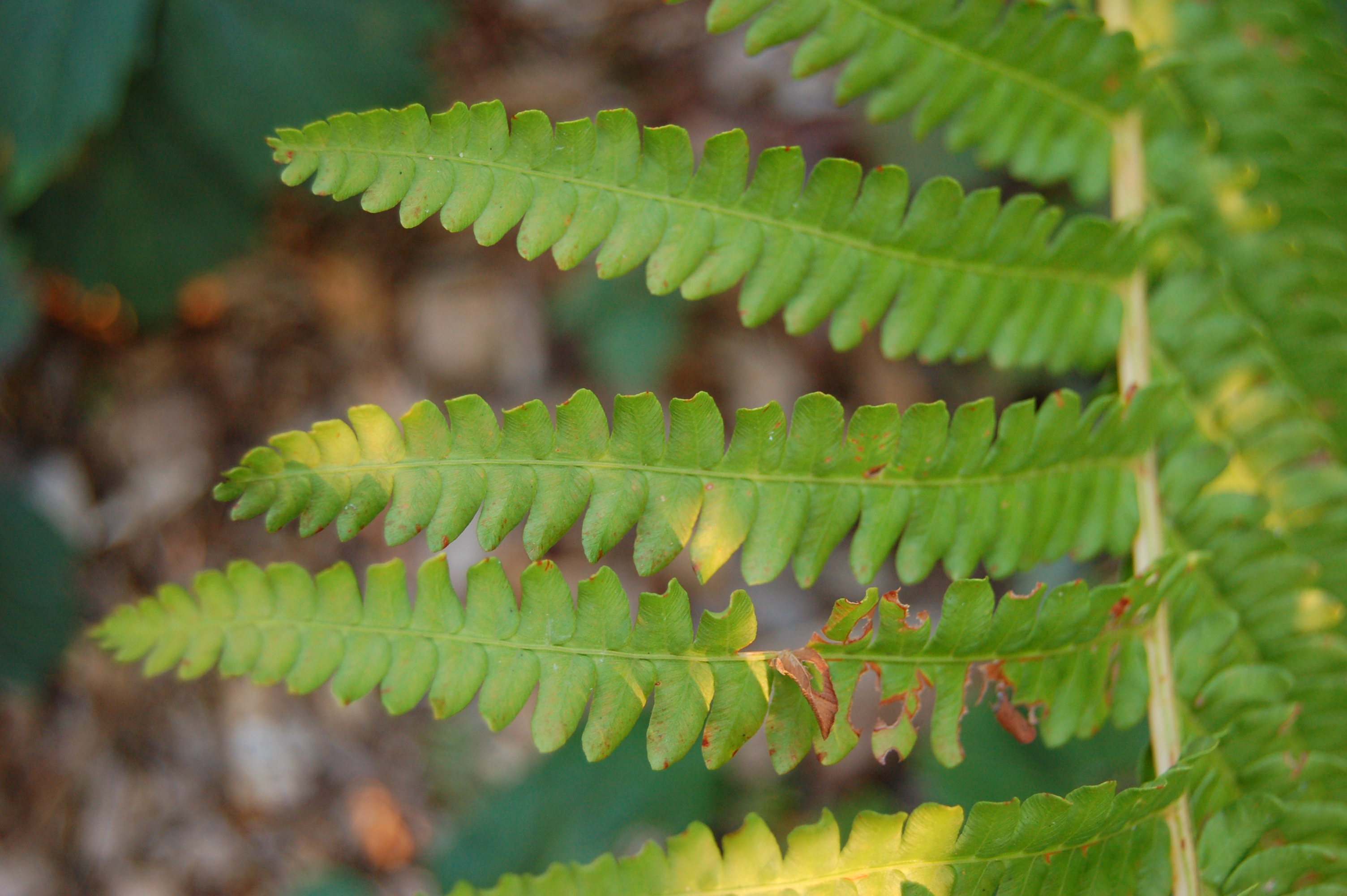 Closeup photograph of the pinnae of a sterile frond of the Cinnamon Fern (Osmundastrum cinnamomeum). Photo taken at the Tyler Arboretum where it was identified.